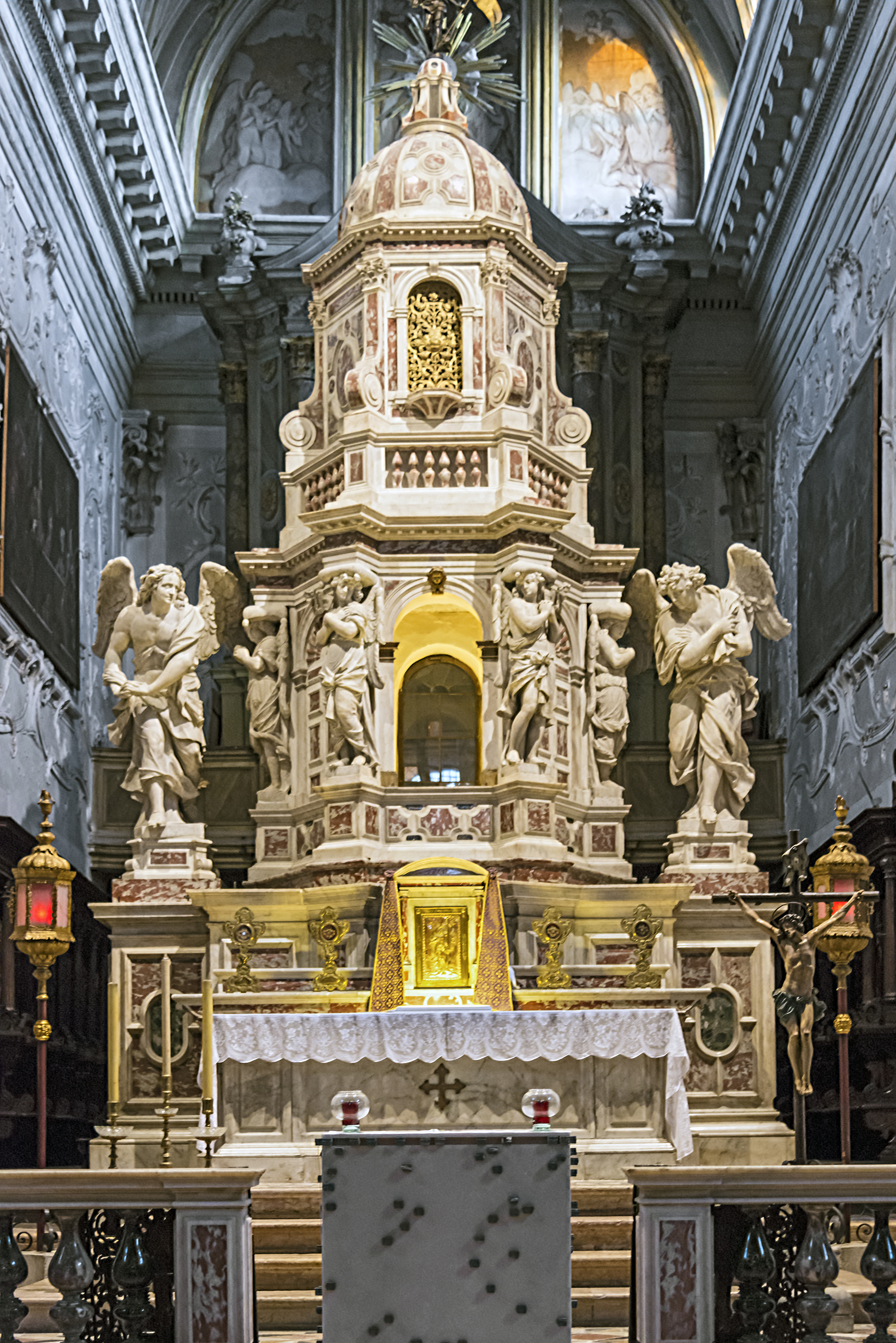 Chiesa di San Nicola da Tolentino in Venice. The maine altar alla romana polychrome marble, with a large tabernacle in the shape of small allegory temple of the Holy Sepulcher directed by Baldassarre Longhena. The two worshipers angels and six angels caryatids by Josse de Corte.